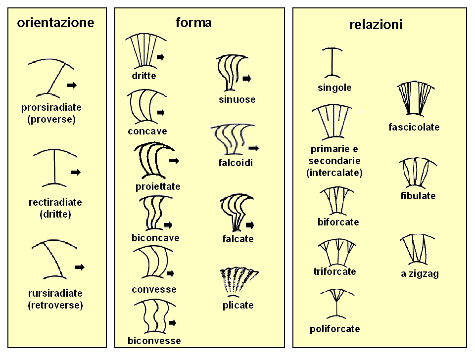 principal types of ribs occurring in ammonite shells